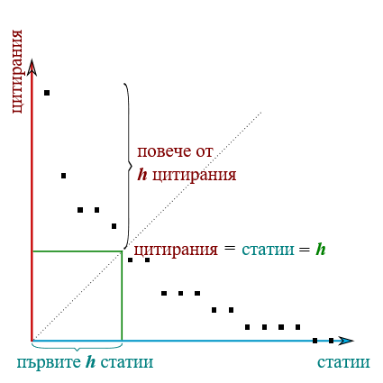 h-index (Hirsch), with inscriptions in Bulgarian